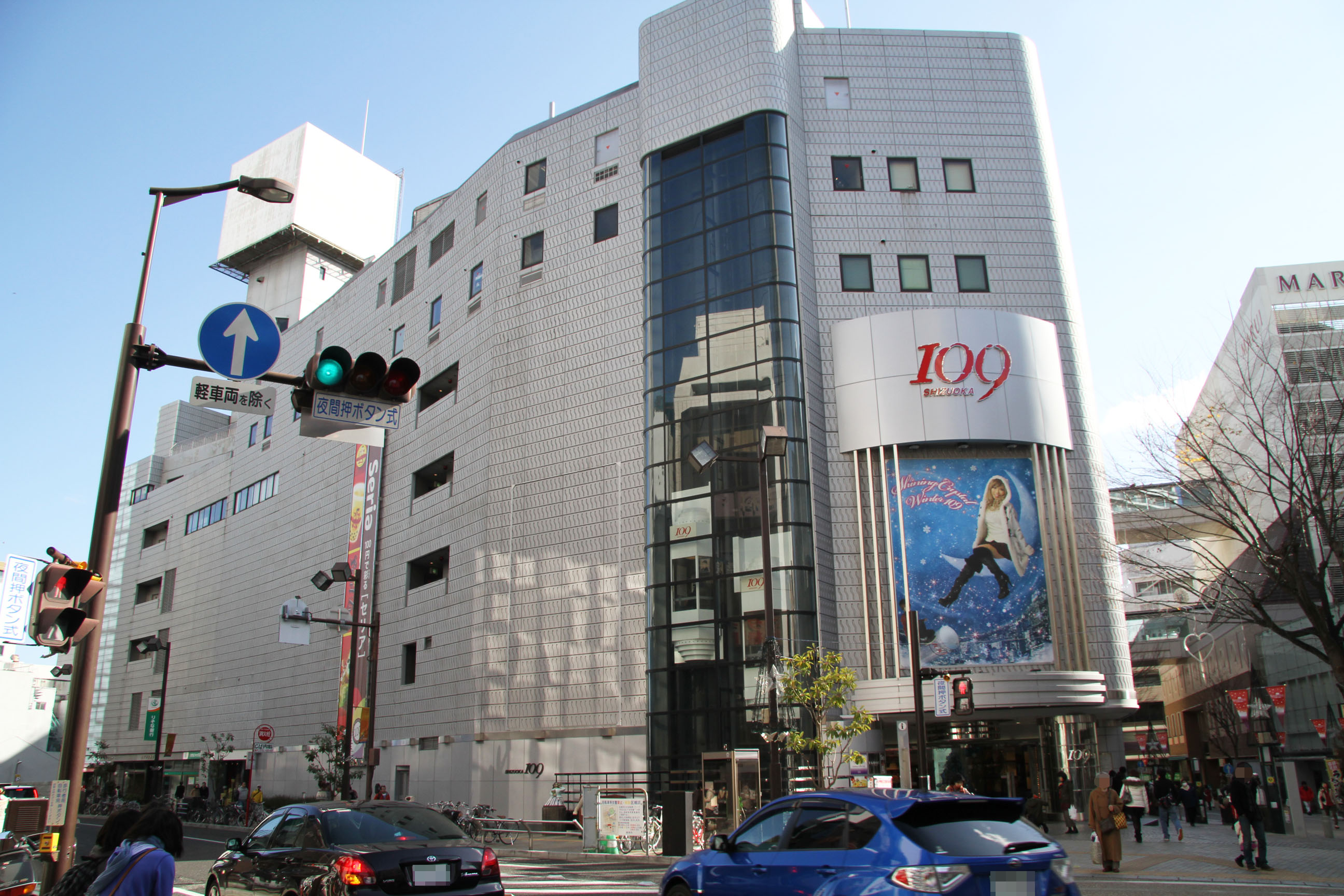 SHIZUOKA109 (Shizuoka Tenmacho Plaza Bldg.) in Aoi-ku, Shizuoka, Shizuoka, Japan.